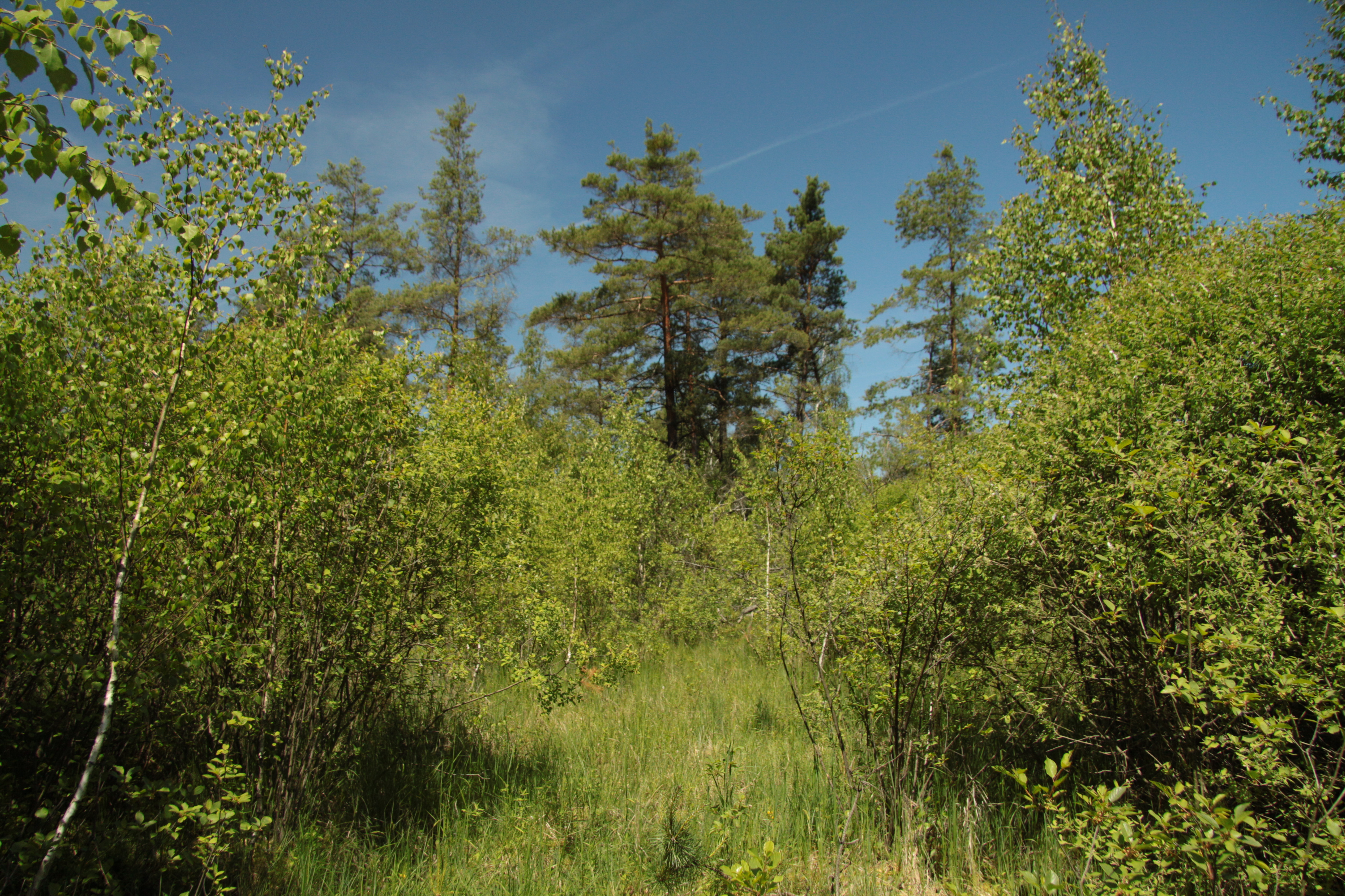 National nature reserve Ruda near Bošilec in České Budějovice and Tábor District, Czech Republic